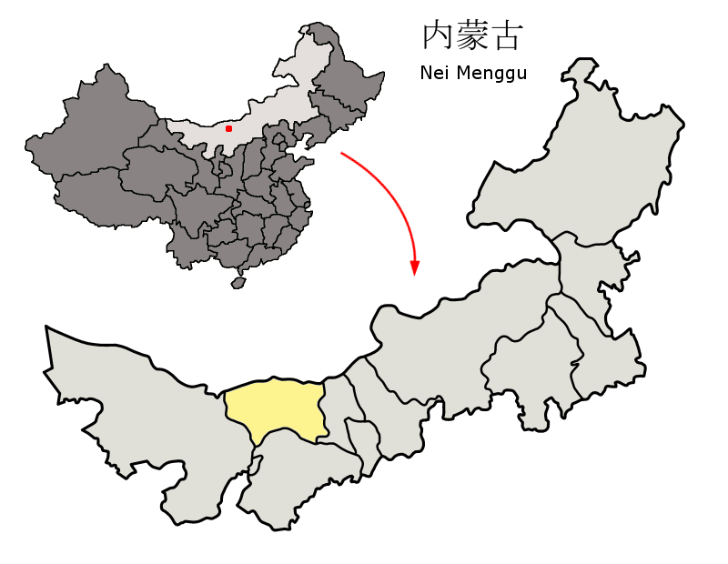 Location of Baynnur Prefecture (yellow) within Inner Mongolia Autonomous Region of China Map drawn in november 2007 using various sources, mainly : Inner Mongolia Autonomous Region administrative regions GIS data: 1:1M, County level, 1990 Inner Mongolia Counties map from